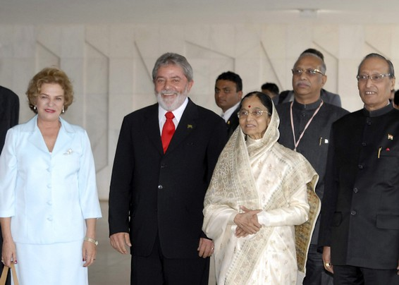 Pratibha Patil, current prsident of India.